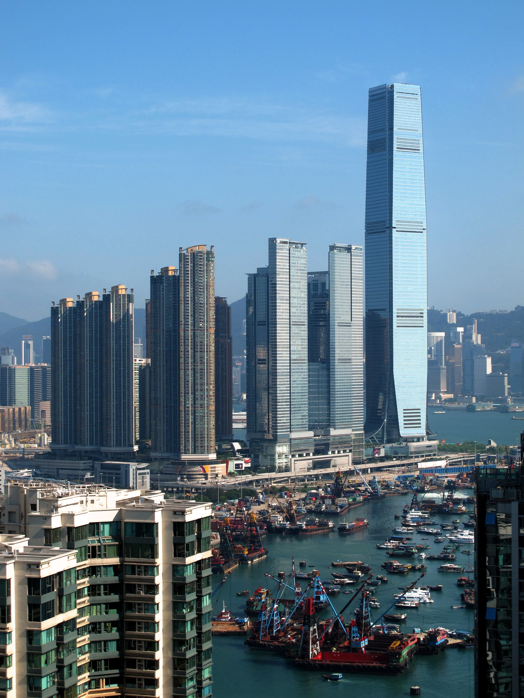 Union Square Overview